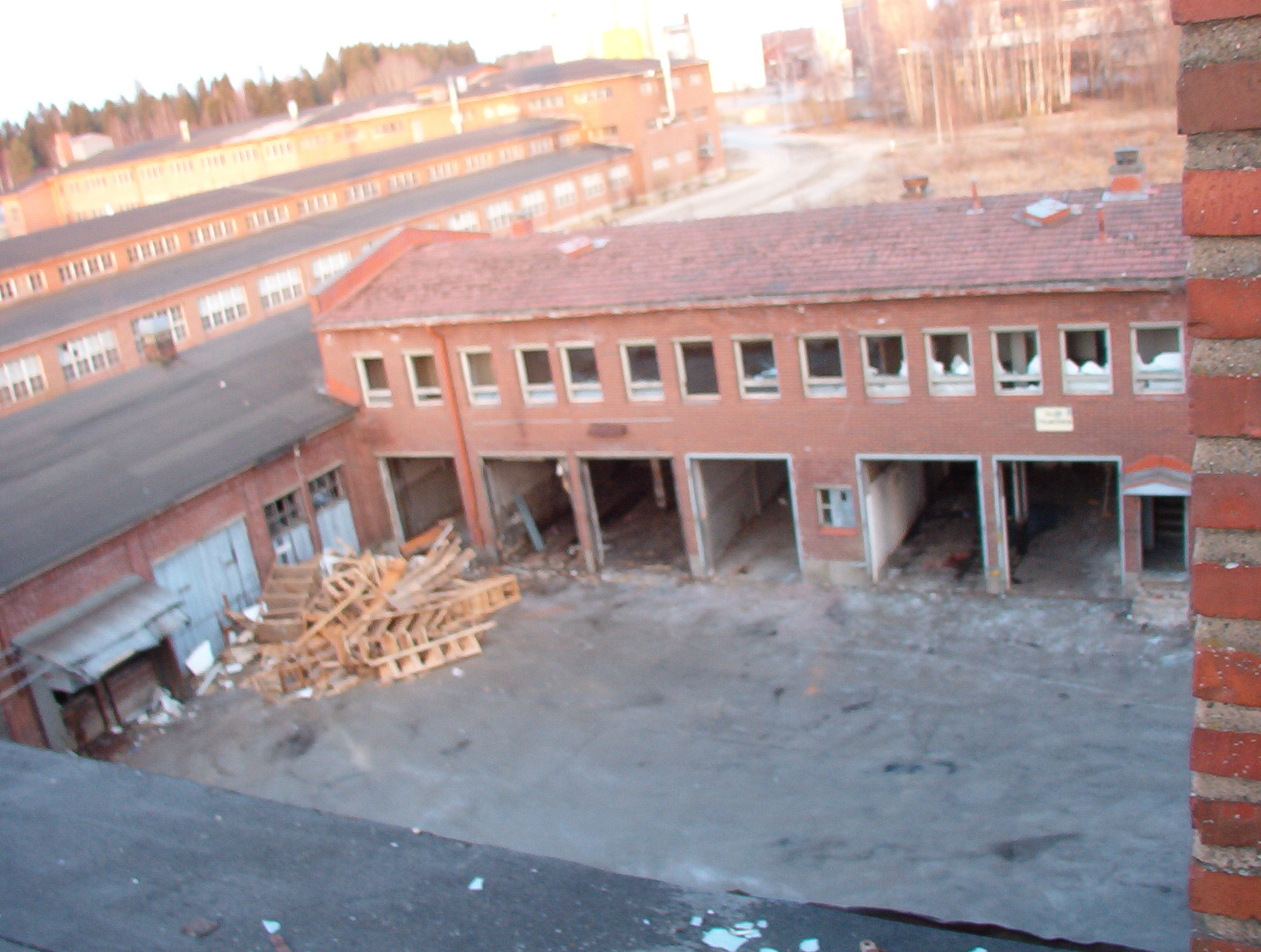 Old power plant